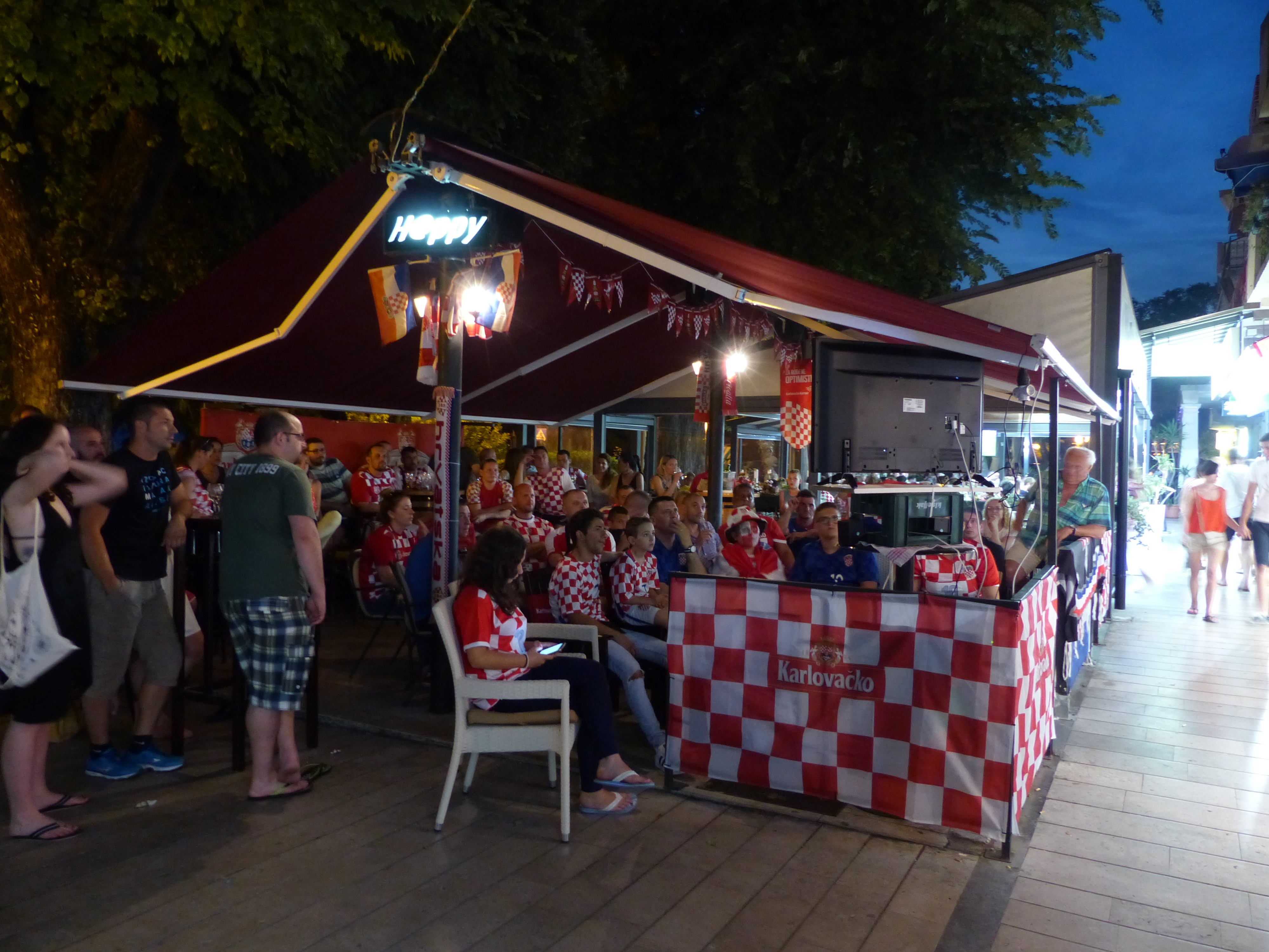 Taken on the 25th of June, 2016. Independence Day. The Croatian referendum on independence was held in May 1991, with 93% of voters supporting the independence. On 25 June 1991 the Croatian parliament (Croatian: Sabor) proclaimed the Croatian independence. In 2016 on this day croatians celebrated their independence, and the croatian football team played againts the portugalians in the Euro 2016 plays. All over the town folks were wearing the croatian flag, sitting in bars and cheering for the croatian team. Karlovacko Beach Club (on the sea shore), bars, cafes. On 25 June the Croatian parliament (Croatian: Sabor) proclaimed the Croatian independence. Tags: Day of Independence (Croatia) 2016 in Crikvenica Euro 2016 Sources